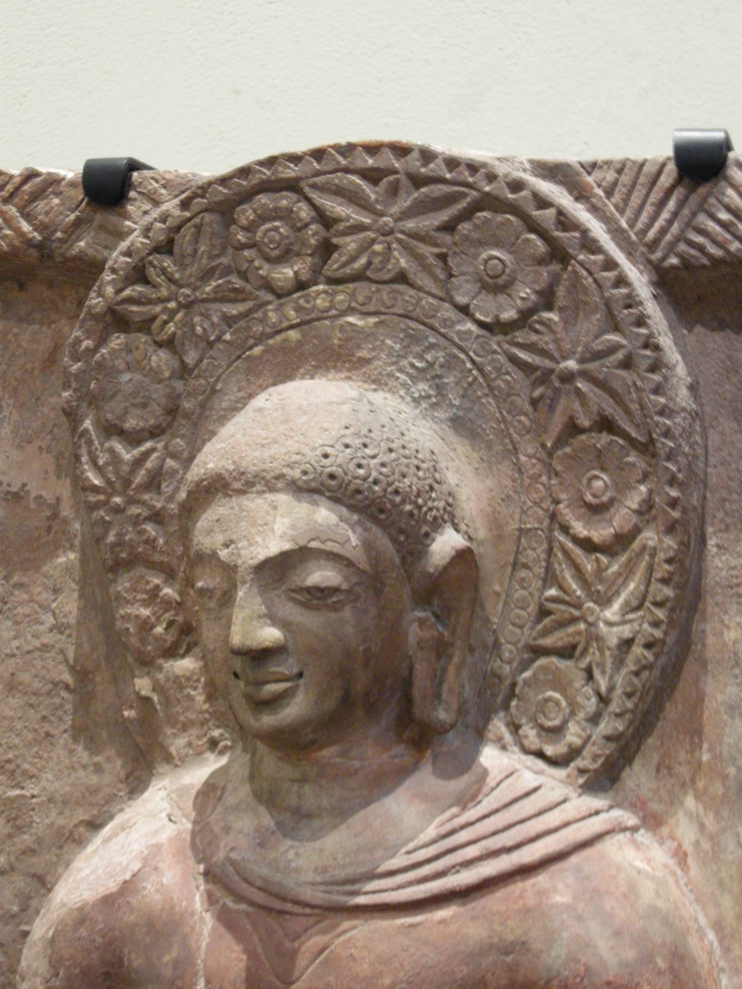 Buddha, from the basement of a stupa Terracotta Kahu-jo-daro, near Mirpur Khas, Sind, Pakistan Gupta period, 5th-6th century This large-scale terracotta relief panel of a meditating Buddha was recovered from the collapsed remains of a 5th-6th century stupa in Sind. The figure of the Buddha is surrounded by a floral border. It is one of a series of Buddhas that decorated the walls of the square basement section of the stupa. Wikipedia Loves Art at the Victoria and Albert Museum This photo of item # [1] at the Victoria and Albert Museum was contributed under the team name "VeronikaB" as part of the Wikipedia Loves Art project in February 2009. Victoria and Albert Museum The original photograph on Flickr was taken by VeronikaB—please add a comment to the original Flickr page whenever a use has been made on Wikipedia or another project. Project galleries on Flickr: this institution, this team